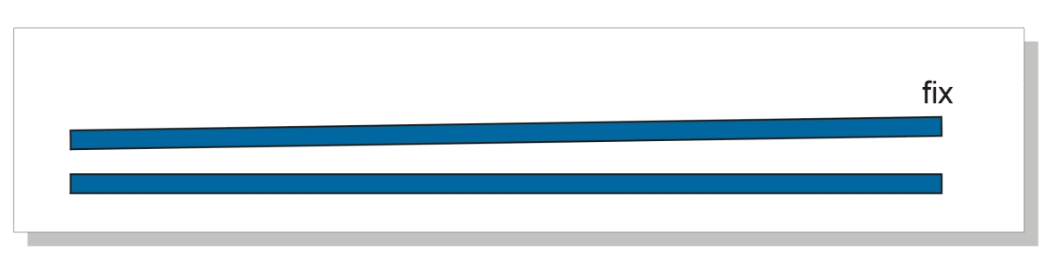 Fixed angle between upper and lower blade (e.g. 1 degree)